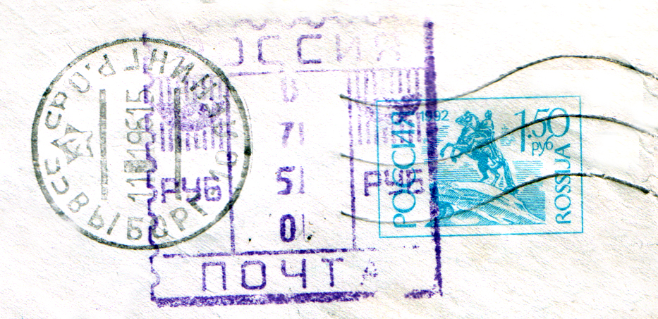 Provisional stamp of Vyborg, 1996